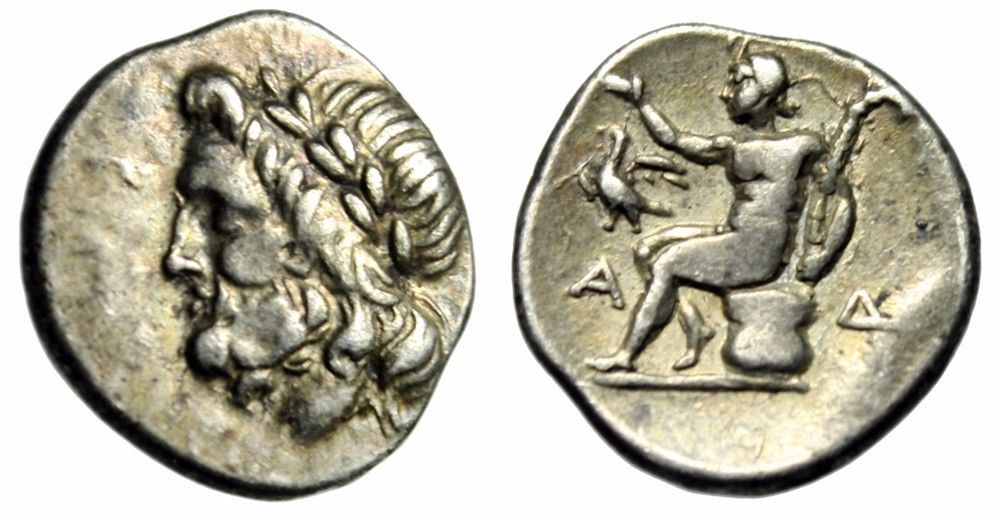 A silver drachm of the Arcadia League from ancient Megalopolis